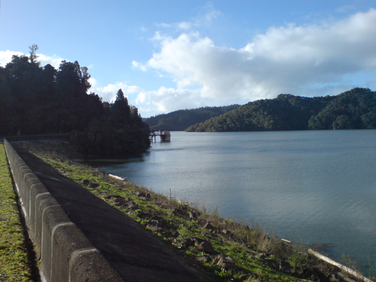 Cossey's Creek Dam and Reservoir in Auckland, New Zealand. Looking northwards from on top of the dam crown.